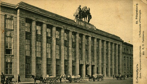 Embassy of Germany in Saint Petersburg